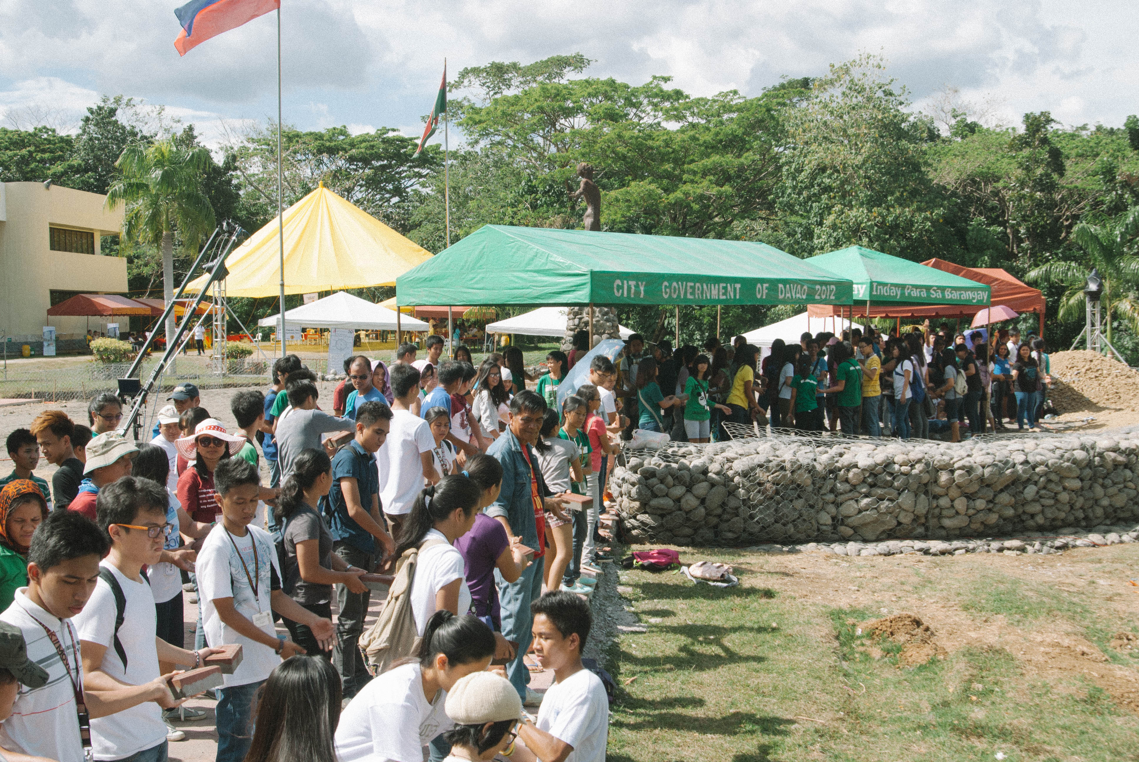 Various UP alumni from all UP constituent universities, UP Mindanao administration, staff, faculty, students, and friends of UP participate in the "Isang Libong Alumni Para Kay Oble" Oblation Plaza Construction activity held on 28 February 2015 in line with the 20th Anniversary Celebration of UP Mindanao.